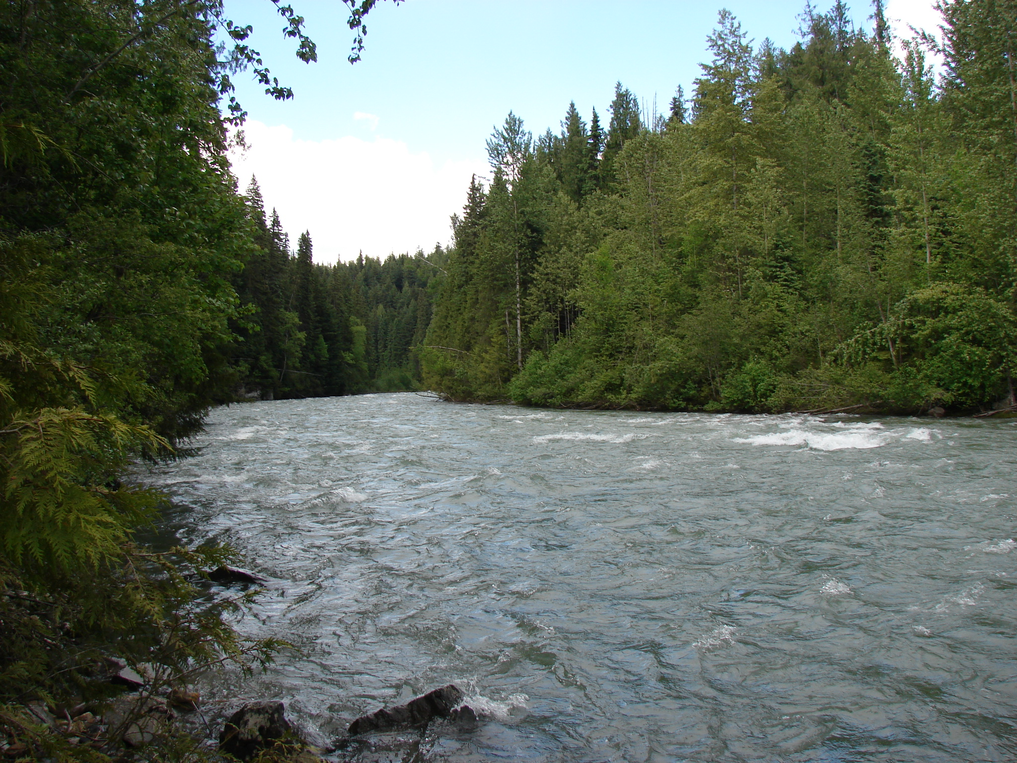 view of the Goat River from below the Hwy 16 Bridge